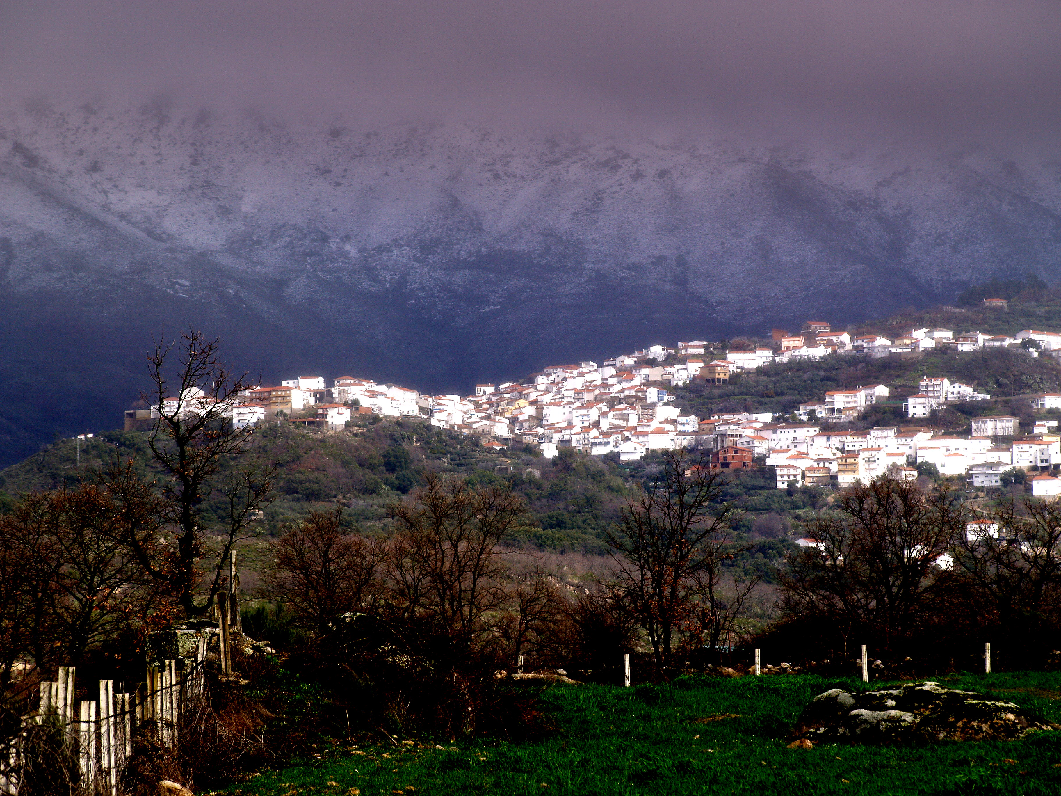 Gata Mountain Range snowed